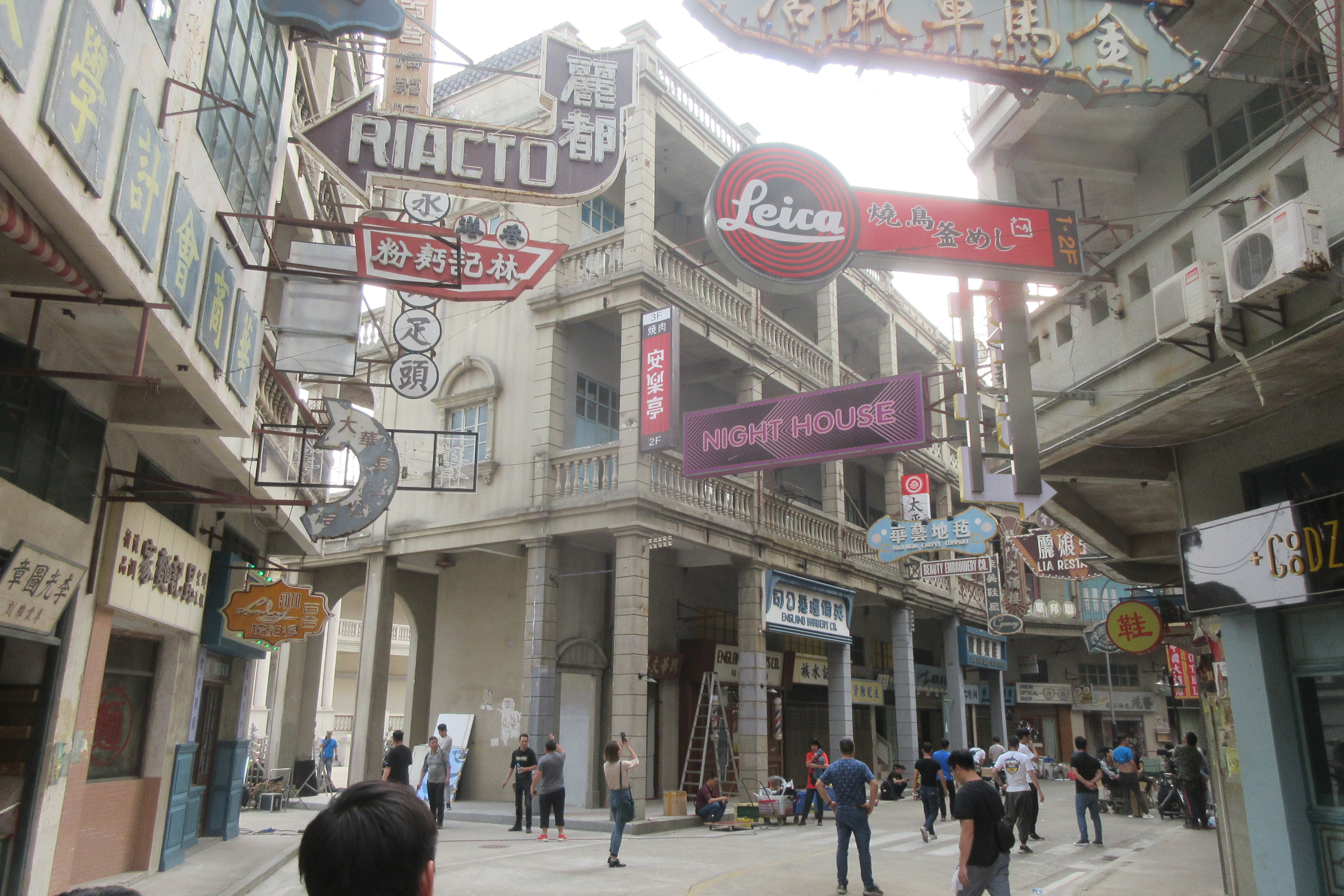 GD FS 佛山市 Foshan 西樵山國藝影視城 Xiqiao National Arts Studio in March 2019